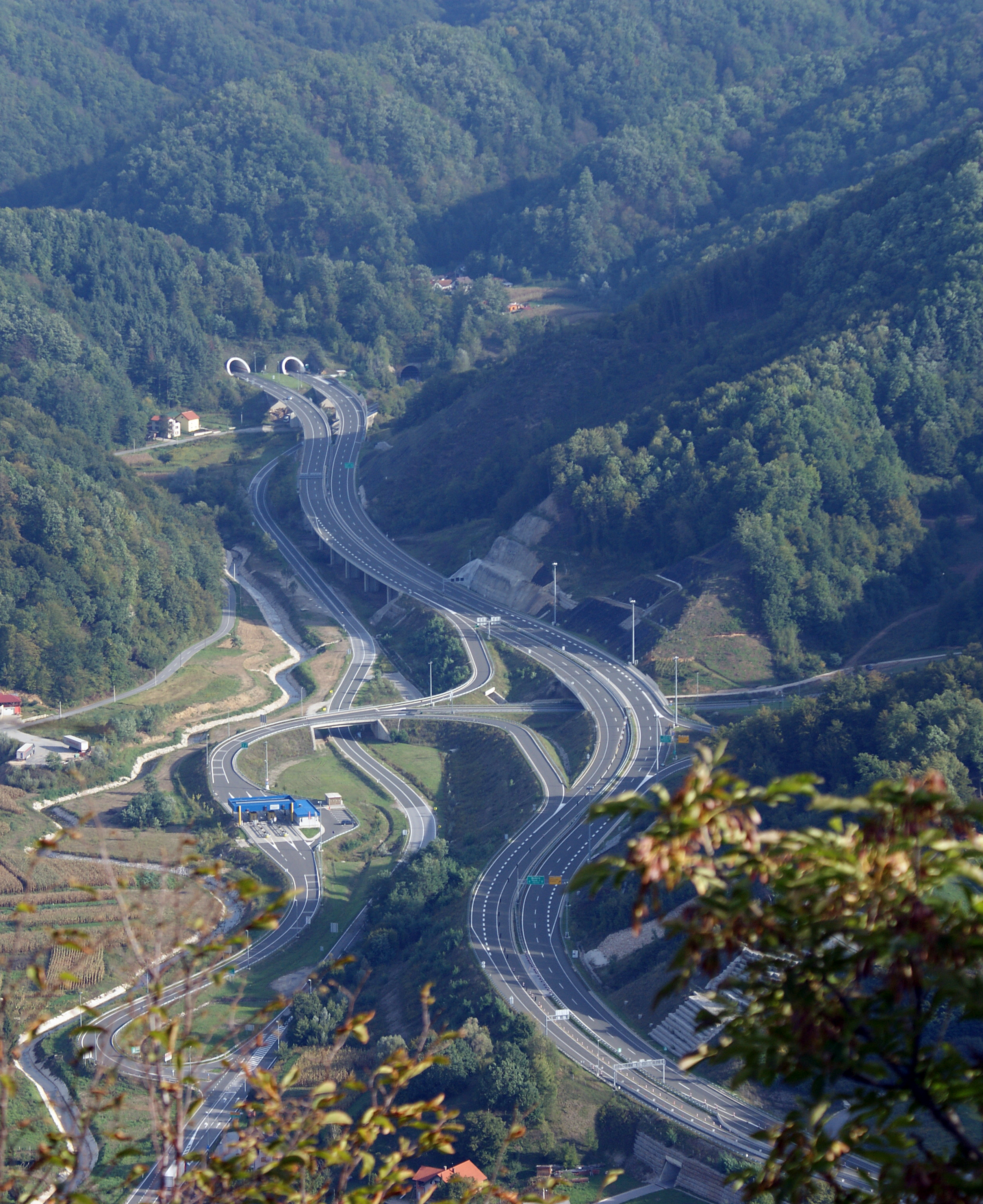 Highway A2 (Croatia) at Đurmanec. Photo taken from Brezovica mountain.